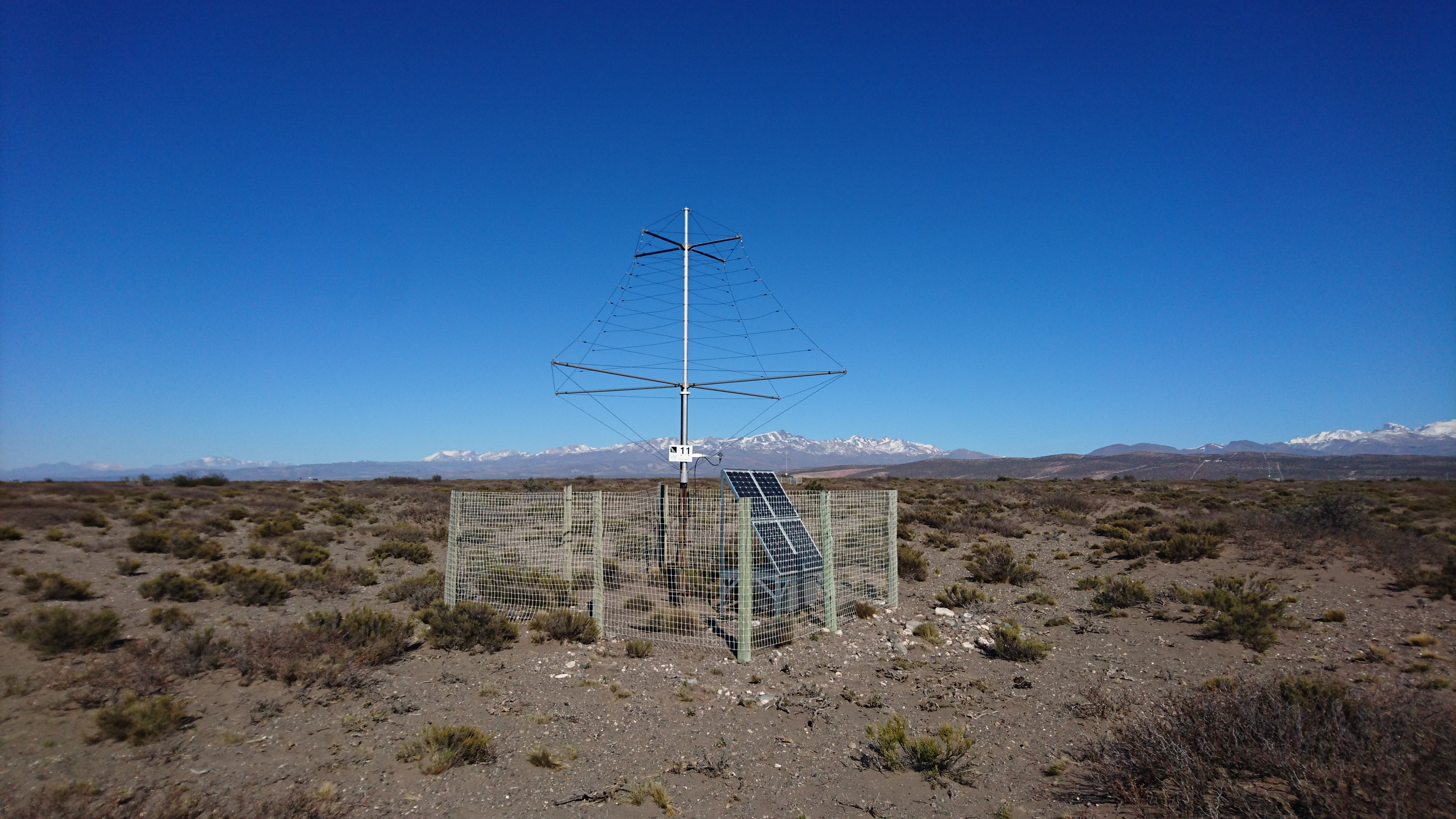 An LPDA-type antenna of the Auger Engineering Radio Array (AERA) as part of the Pierre Auger Observatory